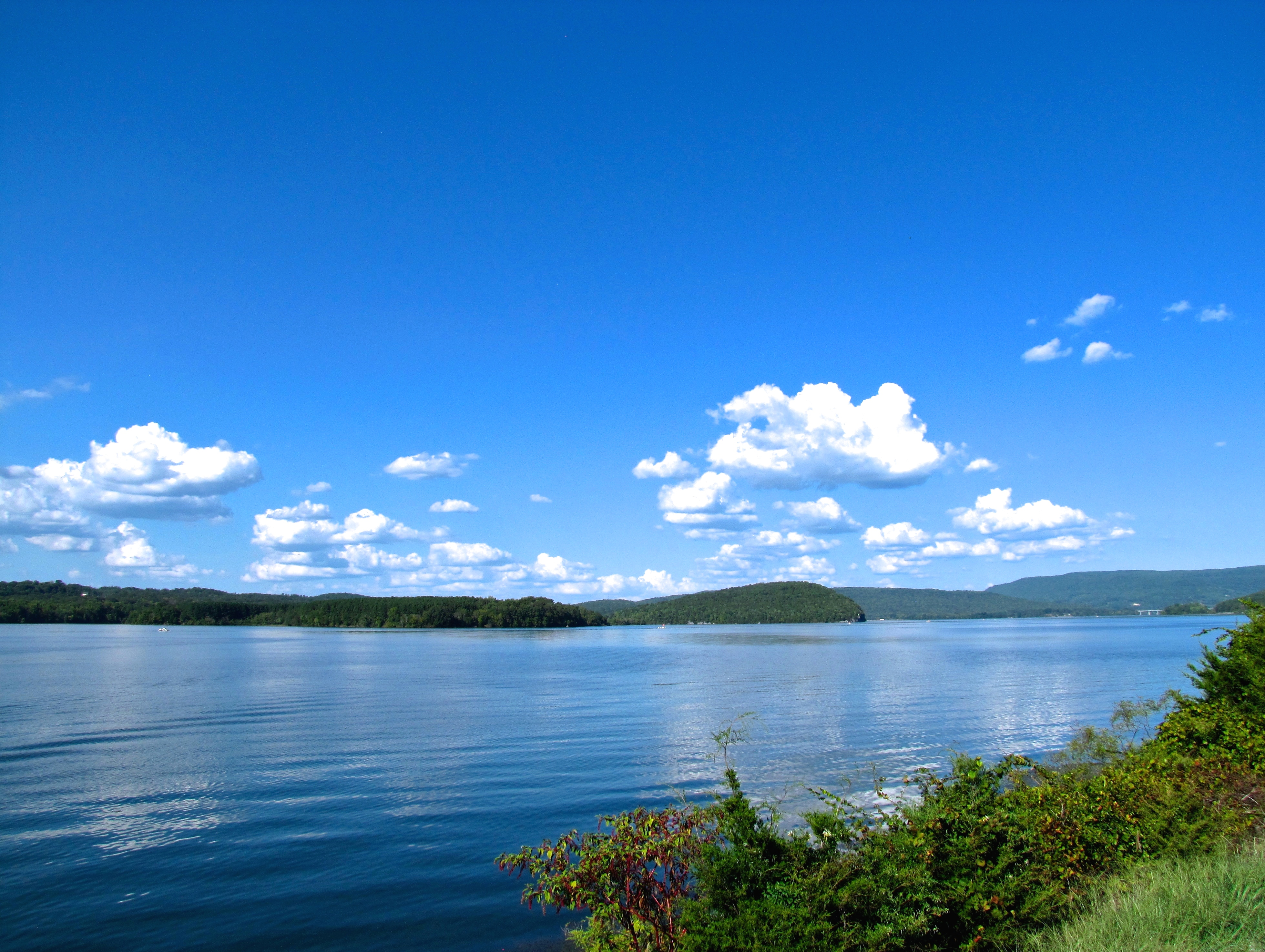 Nickajack Lake in Marion County, Tennessee, United States, viewed from Shellmound Road (SR 156) near Haletown.